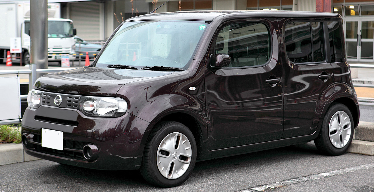 Nissan Cube ( Z12 )